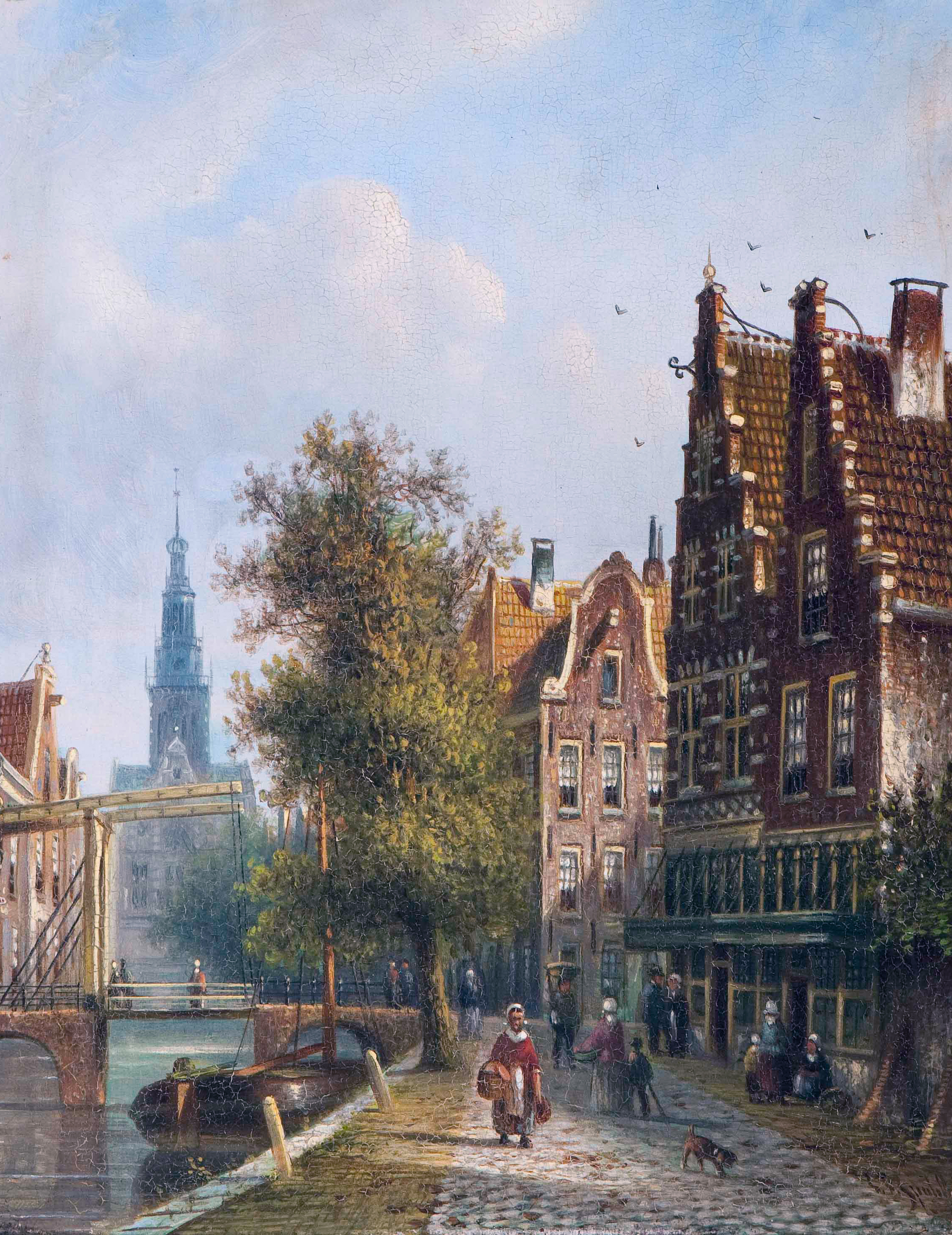 Luttik Oudorp in Alkmaar, in the background the Weigh house tower oil on panel 20.4 x 15.8 cm signed b.r.: (...) Spohler